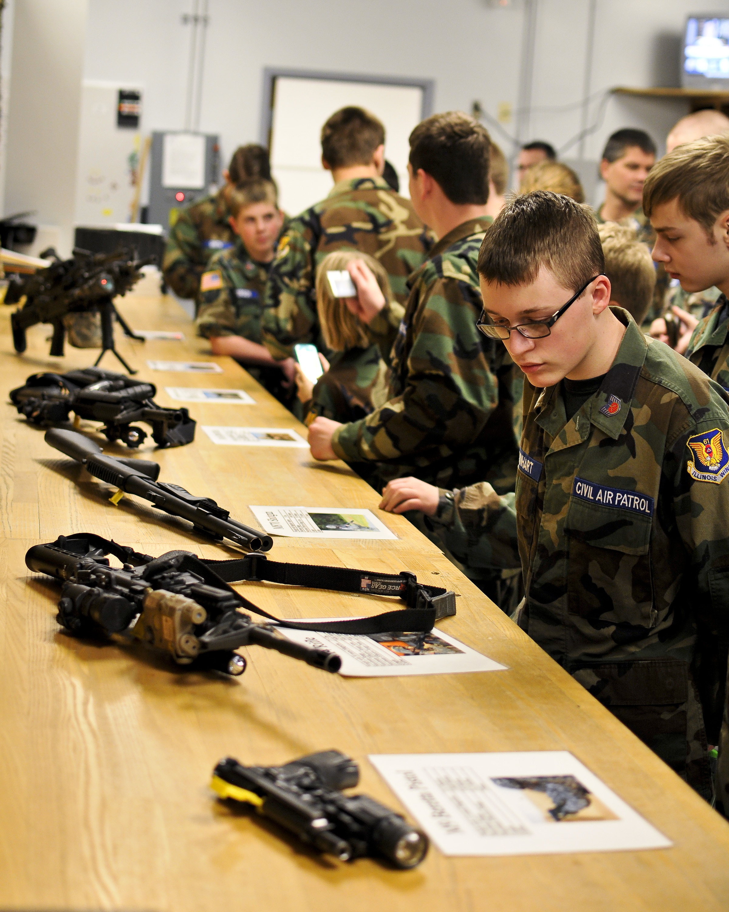 A Civil Air Patrol cadet reads the nomenclature of a security forces squadron M4 carbine at the 182nd Airlift Wing in Peoria, Ill., May 2, 2015. The Peoria and Bloomington cadets toured the Air National Guard base to learn how various career fields support the wing’s air mobility mission. They also took an orientation flight on a C-130 Hercules during their visit. (U.S. Air National Guard photo by Staff Sgt. Lealan Buehrer/Released)